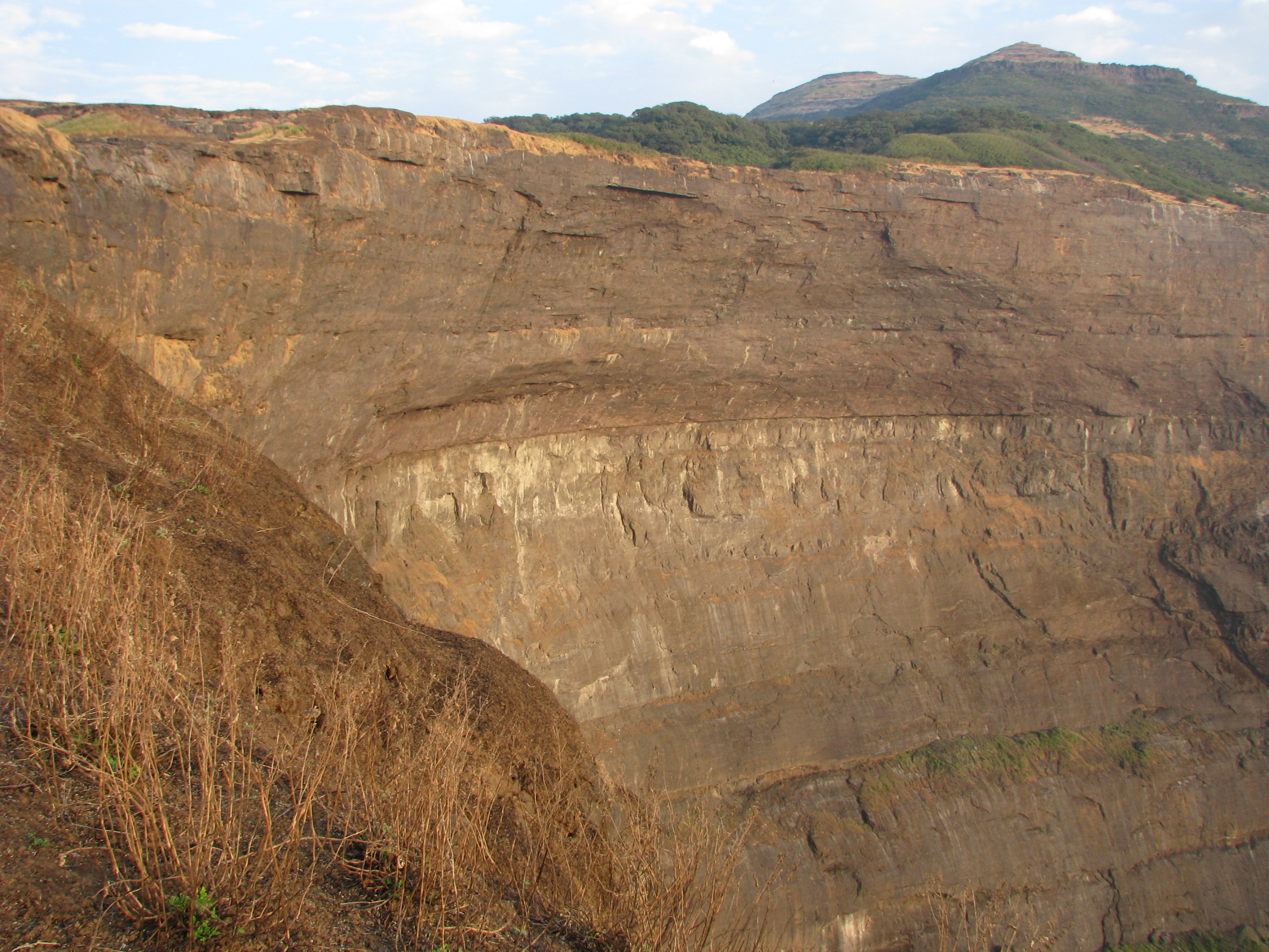 This photo is of "Kokan kada" at harishchandragad (Maharashtra india). The cliff faces west and looks down upon the Konkan From here, one can have a breathtaking view of the surrounding region and the setting sun